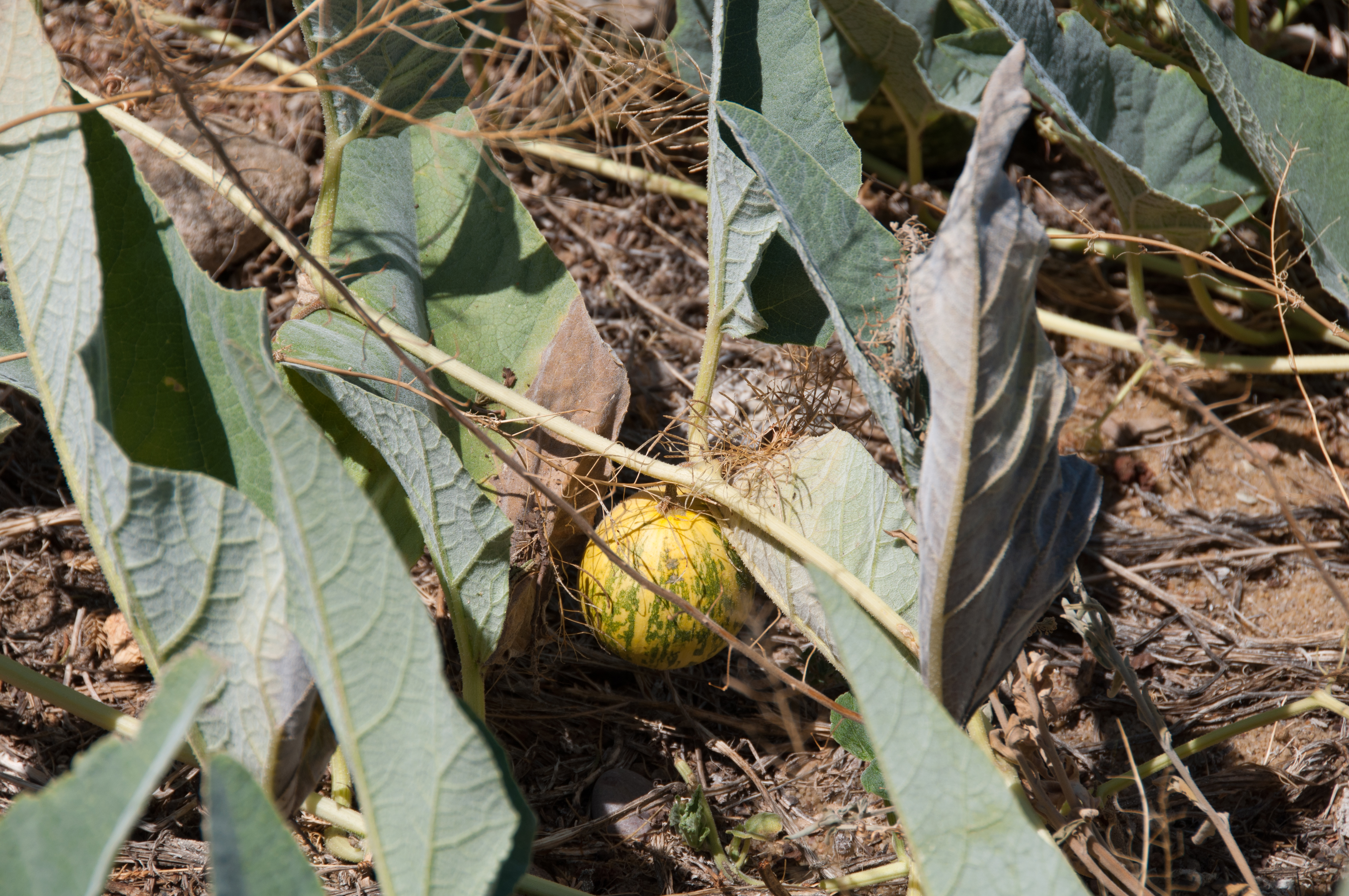 calabaza (wild gourd) Cucurbita foetidissima in Embudo Canyon